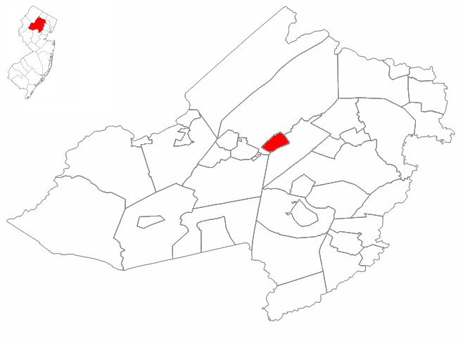 Position of Rockaway (highlighted in red) in Morris County. Morris County's position in New Jersey is in turn highlighted in red.